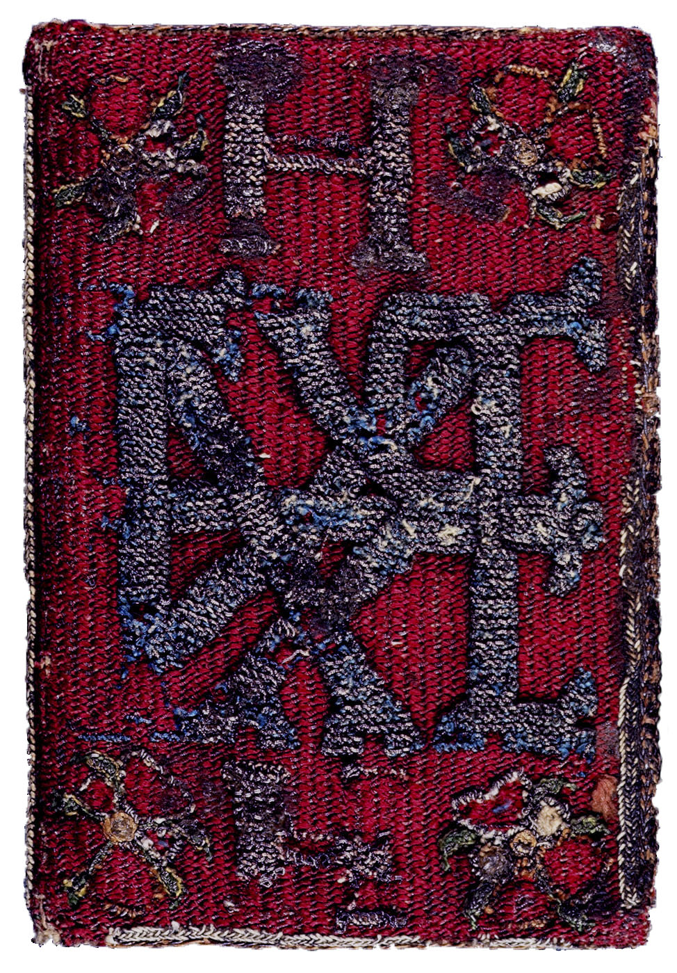 Embroidered back cover [Whole cover] Crimson silk binding, embroidered with gold and silver thread and coloured silks, with a monogram on the name Katharina, and initial H' above, the Lion of England below, and Tudor roses in the corners. The binding was made for a prayer book translated into Latin, French, and Italian by Princess Elizabeth in 1545